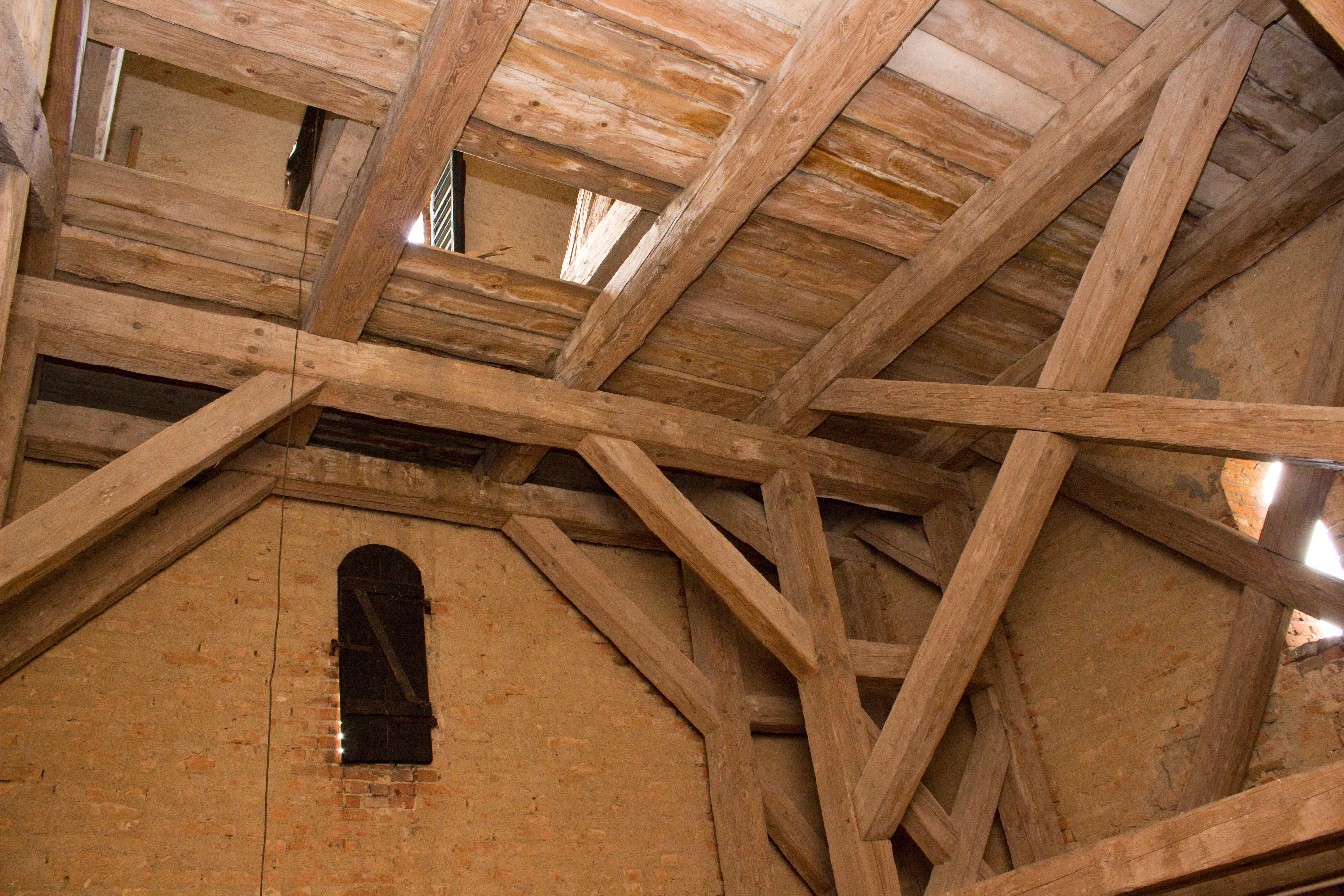 Church, Kraskowo, gmina Korsze, powiat kętrzyński, Warmian-Masurian Voivodeship